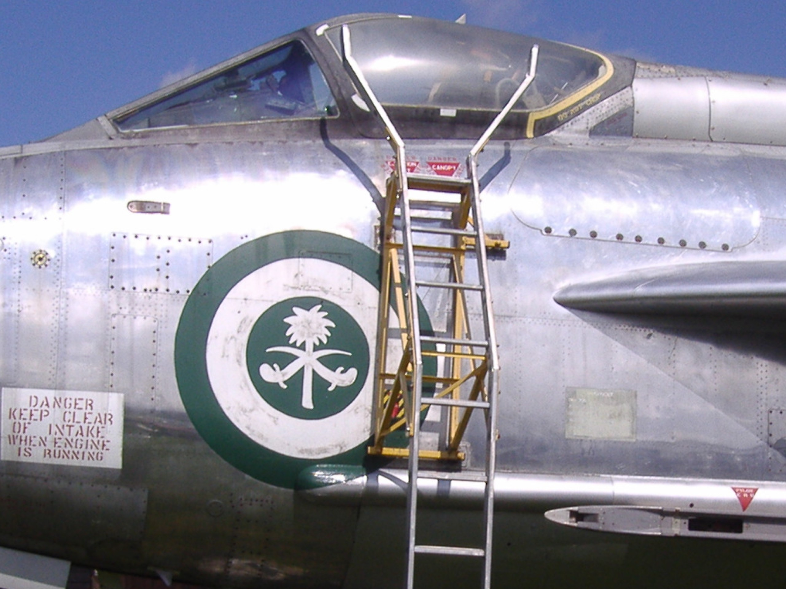 A Digital Photograph of the Saudi Roundel on an English Electric Lightning aircraft at Norwich Aviation Museum